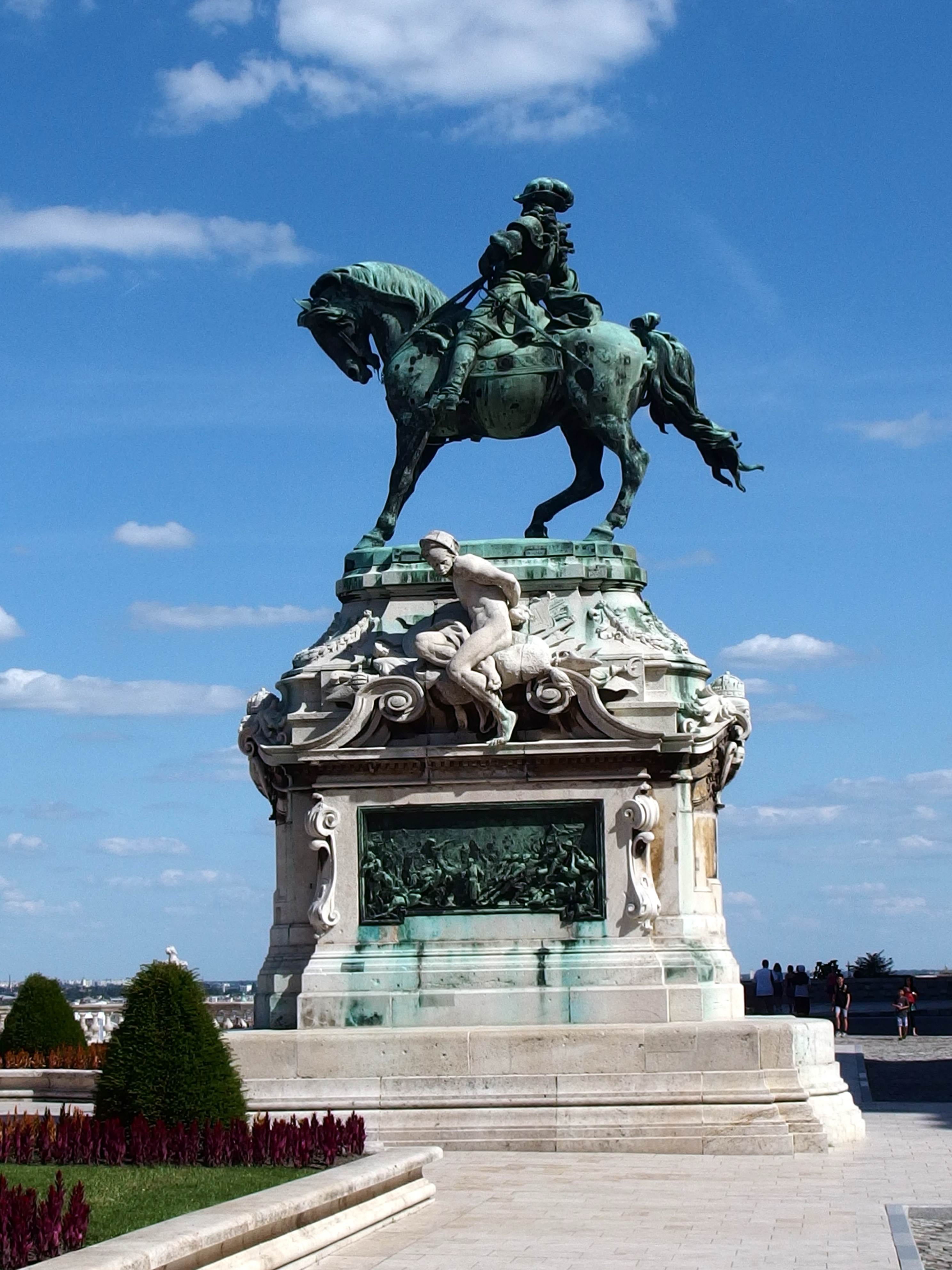 2013-06-13 in Budapest